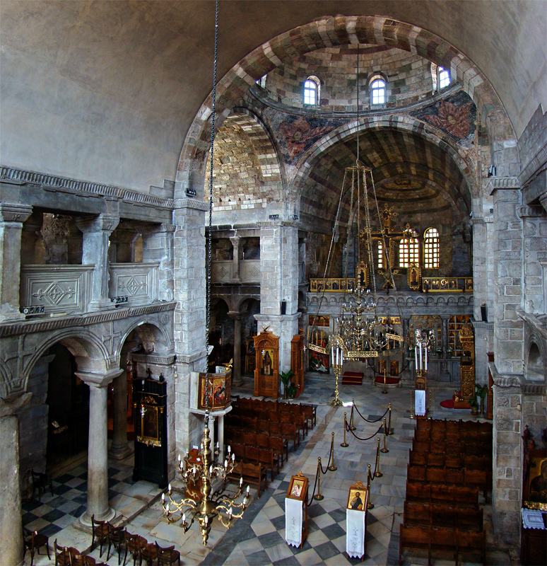 Panagia Ekatondapyliani, Parikia, Paros, Greece.